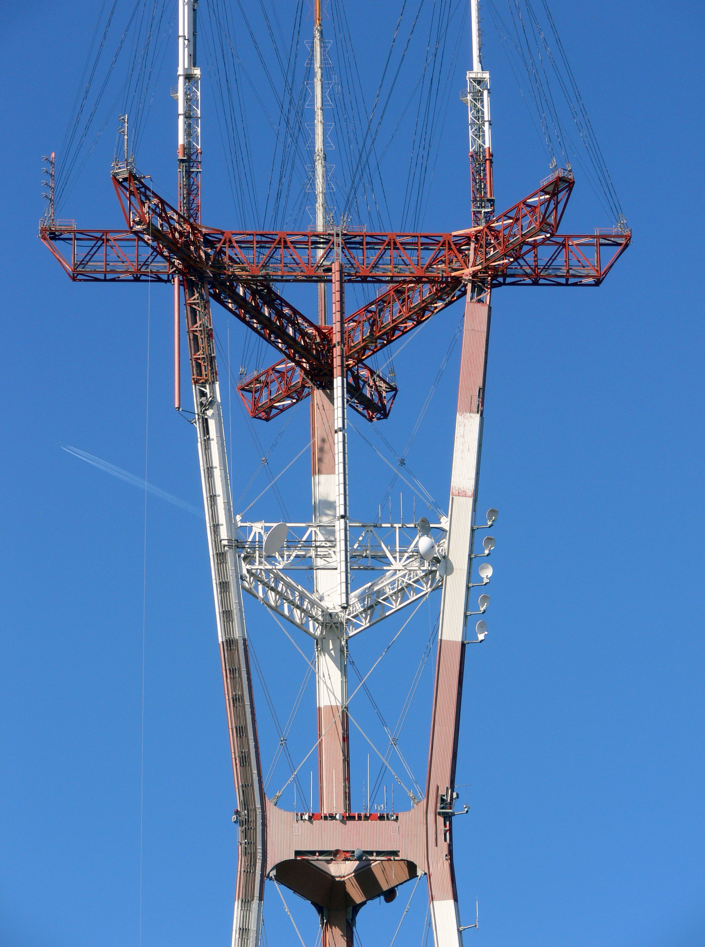 A closeup view of part of Sutro Tower in San Francisco.